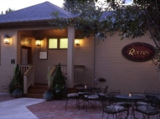 exterior view of Rover's Restaurant